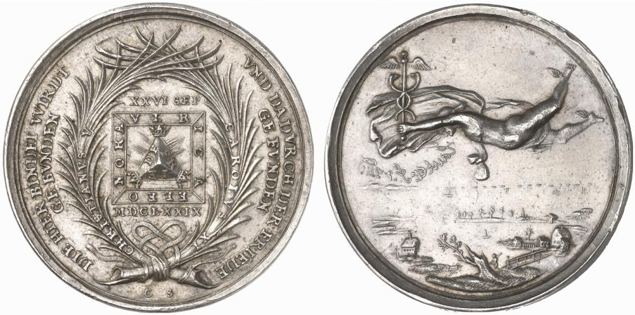 Medal about the "Peace of Lund from 1679